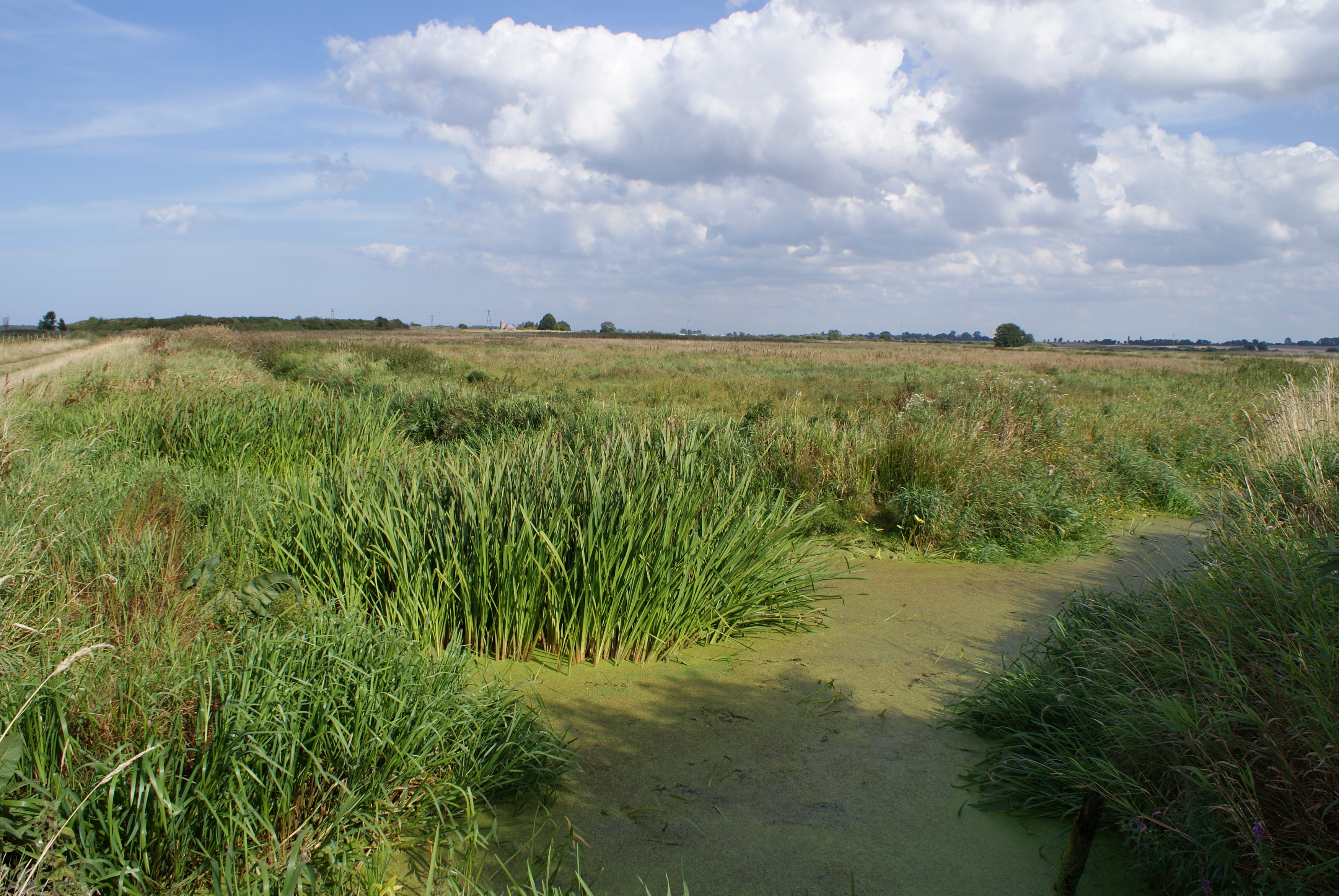 Mrzeżyno II Canal separation, Poland